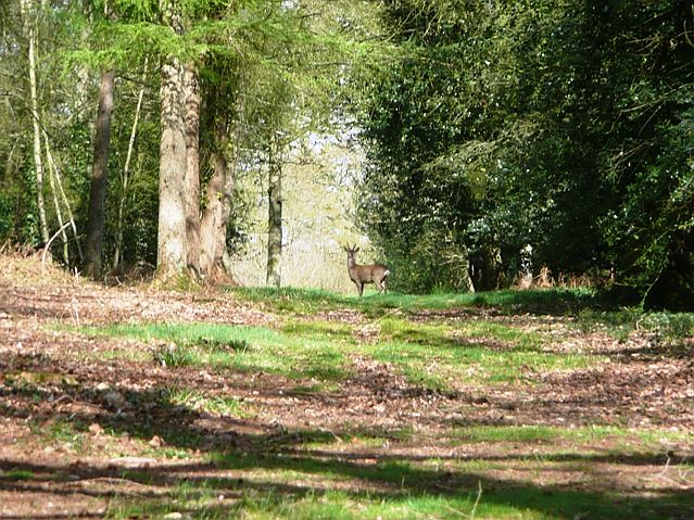 Deer in Tylers Copse You expect to see deer in a secluded place like this. You still can't get close to them though before they run. Access by permission of Beaulieu Estate.